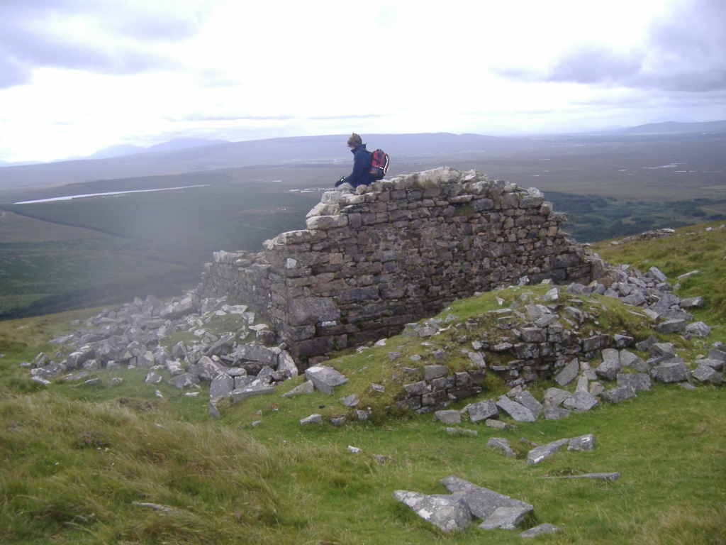 Watch tower built by the English on Glinsk Mountain in County Mayo, Ireland, following the Irish Rebellion of 1798.